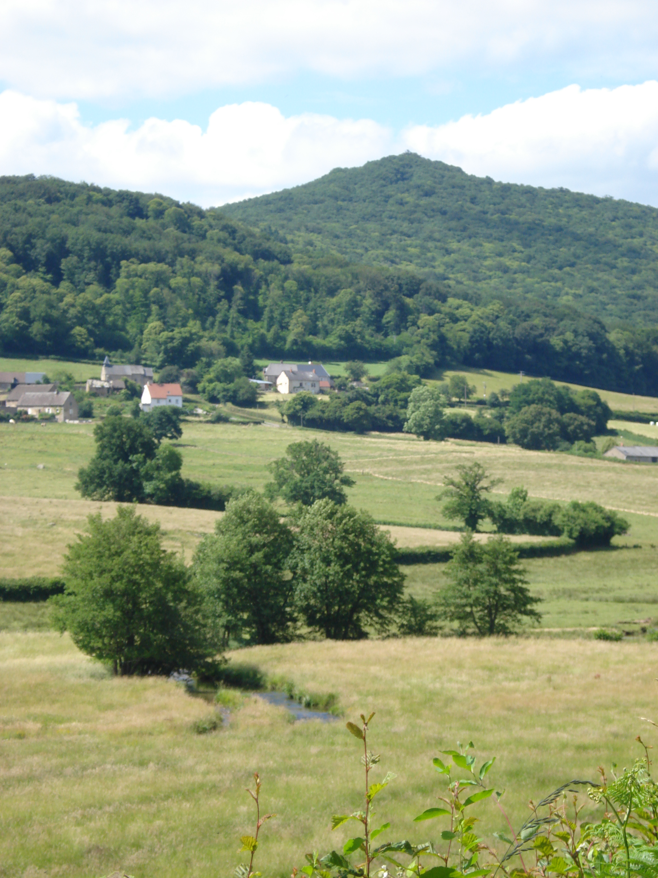 La Roche (rivière), St.Gengoult (hameau) et le Mont Touleur.